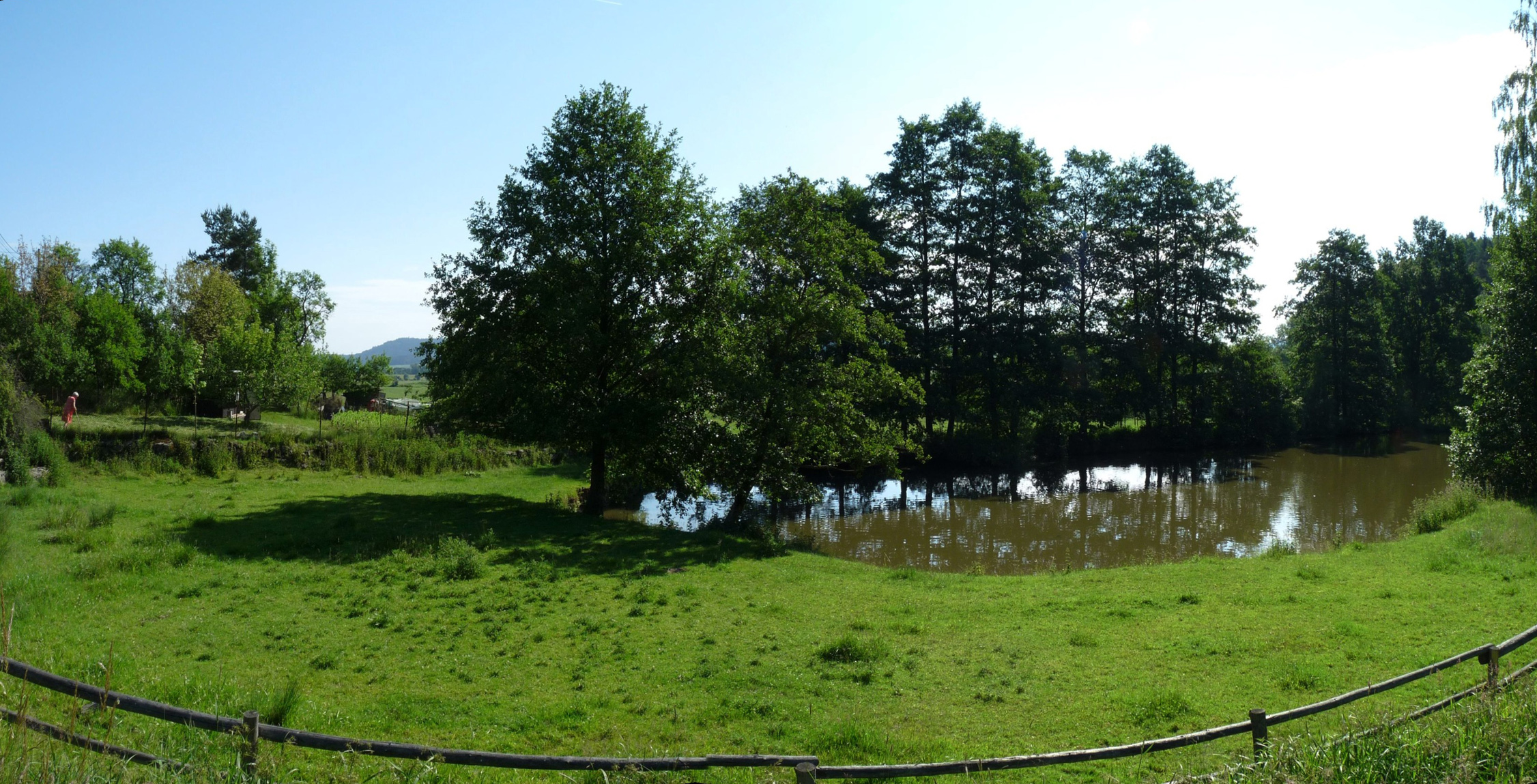 Lomecký pond in the municipality of Čímice, Klatovy District, Plzeň Region, Czech Republic.